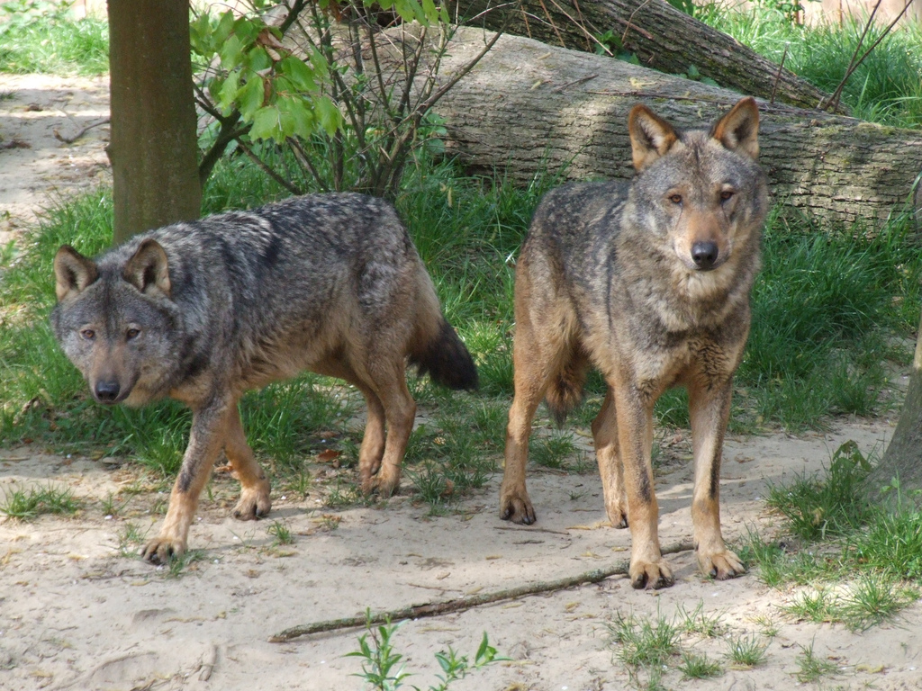 Iberian wolves (Canis lupus signatus) in Kerkrade's Zoo (Netherlands).